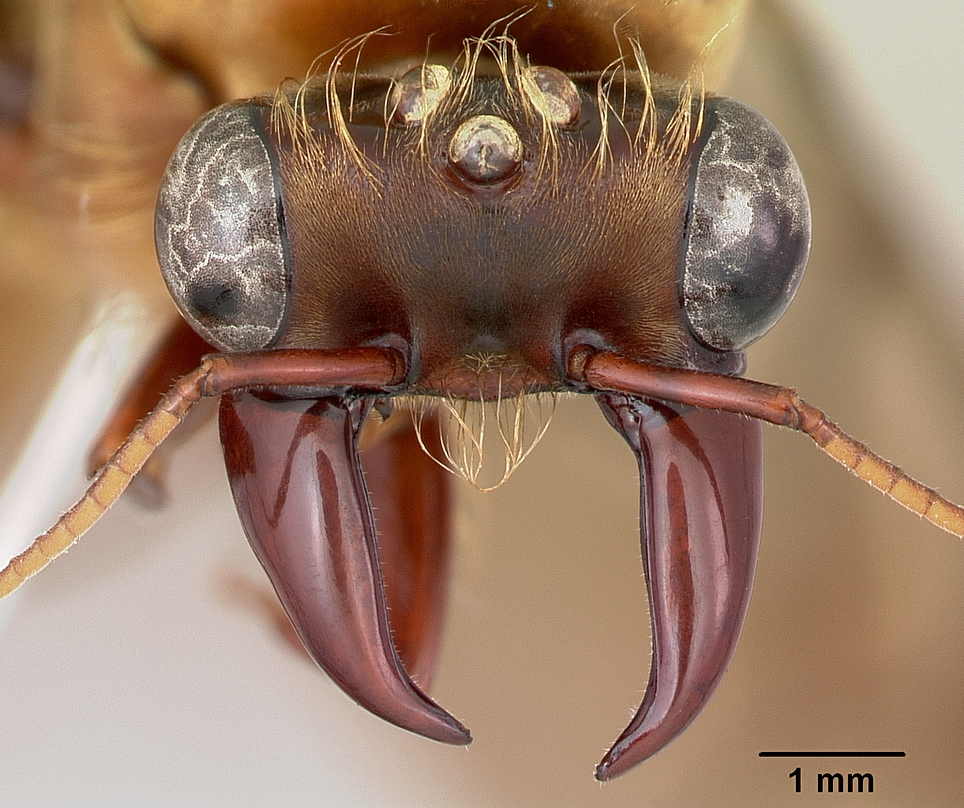 Head view of ant Dorylus gribodoi specimen casent0172625.